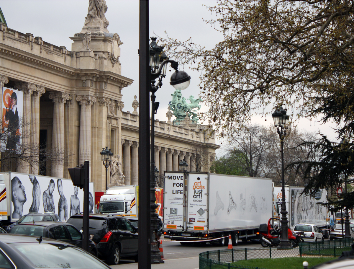 Grand Palais in preparation for ARTPARIS 2011